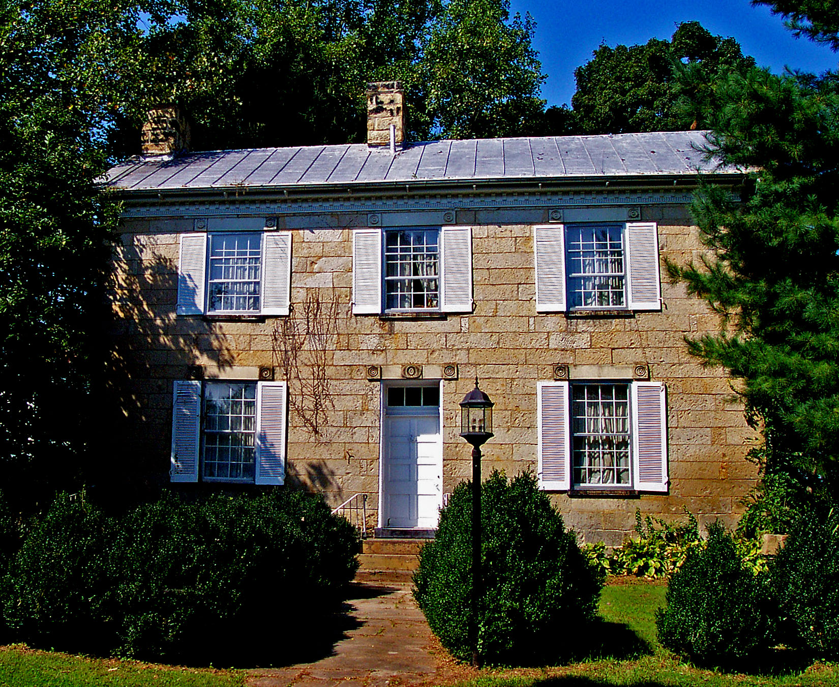 Front of the Vanmeter Stone House, located at the junction of U.S. Route 23 and State Route 124 south of Piketon in Scioto Township, Pike County, Ohio, United States. Built in 1823, it is listed on the National Register of Historic Places.